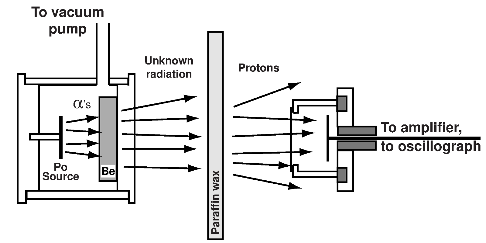 A schematic diagram of the experiment James Chadwick used to discover the neutron in 1932. At left, a polonium source was used to irradiate beryllium with alpha particles, which induced a type of uncharged radiation initially thought to be gamma rays. When this radiation struck paraffin wax, protons were ejected with ca. 5.5 MeV kinetic energy. The protons were observed using a small ionization chamber, called a counter, that detected a signal recorded on an oscillograph. Adapted from J. Chadwick, The Existence of a Neutron, Proc. Royal Society London, Series A, 136, 692-708, 1932.